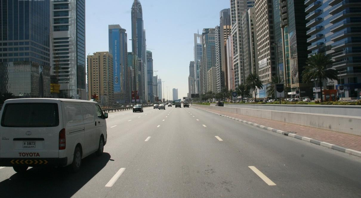 This is a photo showing Sheikh Zayed Road in Dubai, United Arab Emirates as seen on 27 January 2007